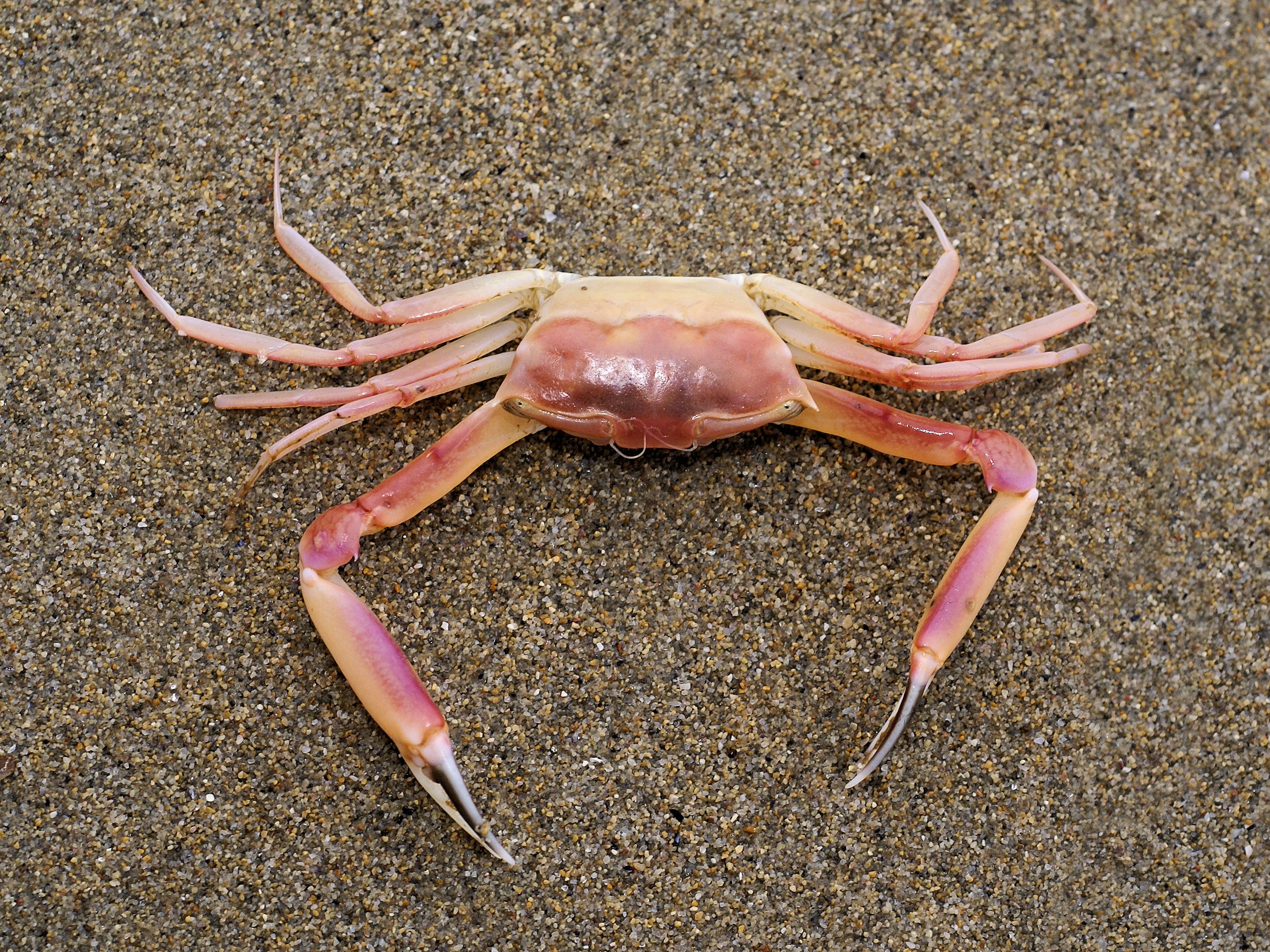 Near Cami de l'Áliga, Catalonia, Spain